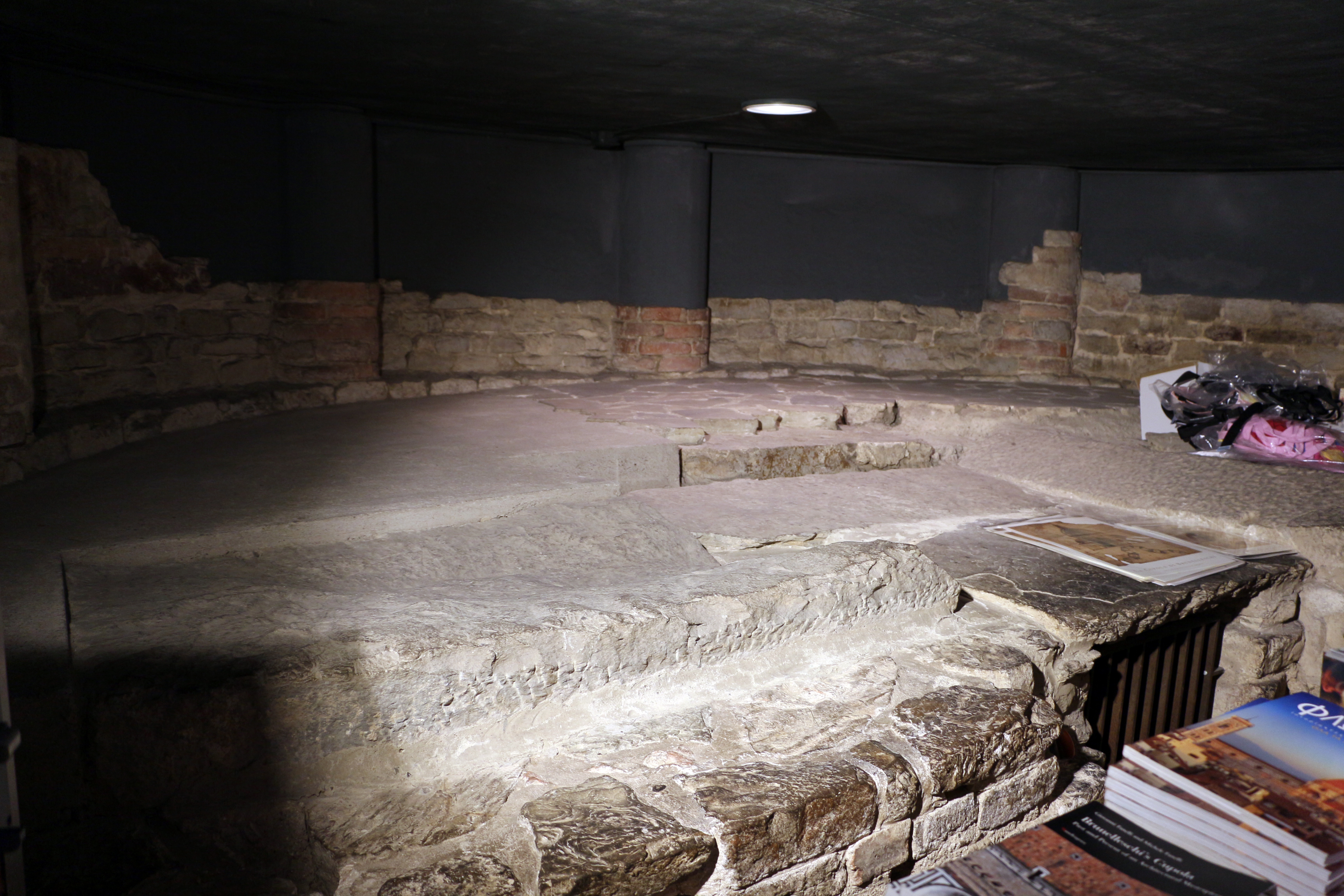 Santa Reparata (Florence)